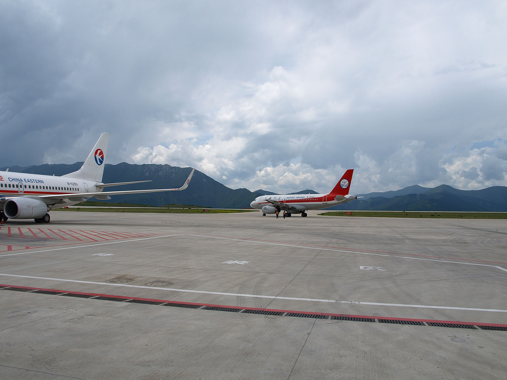 Sichuan Jiuzhaihuanglong Airport Taxiway&Runway